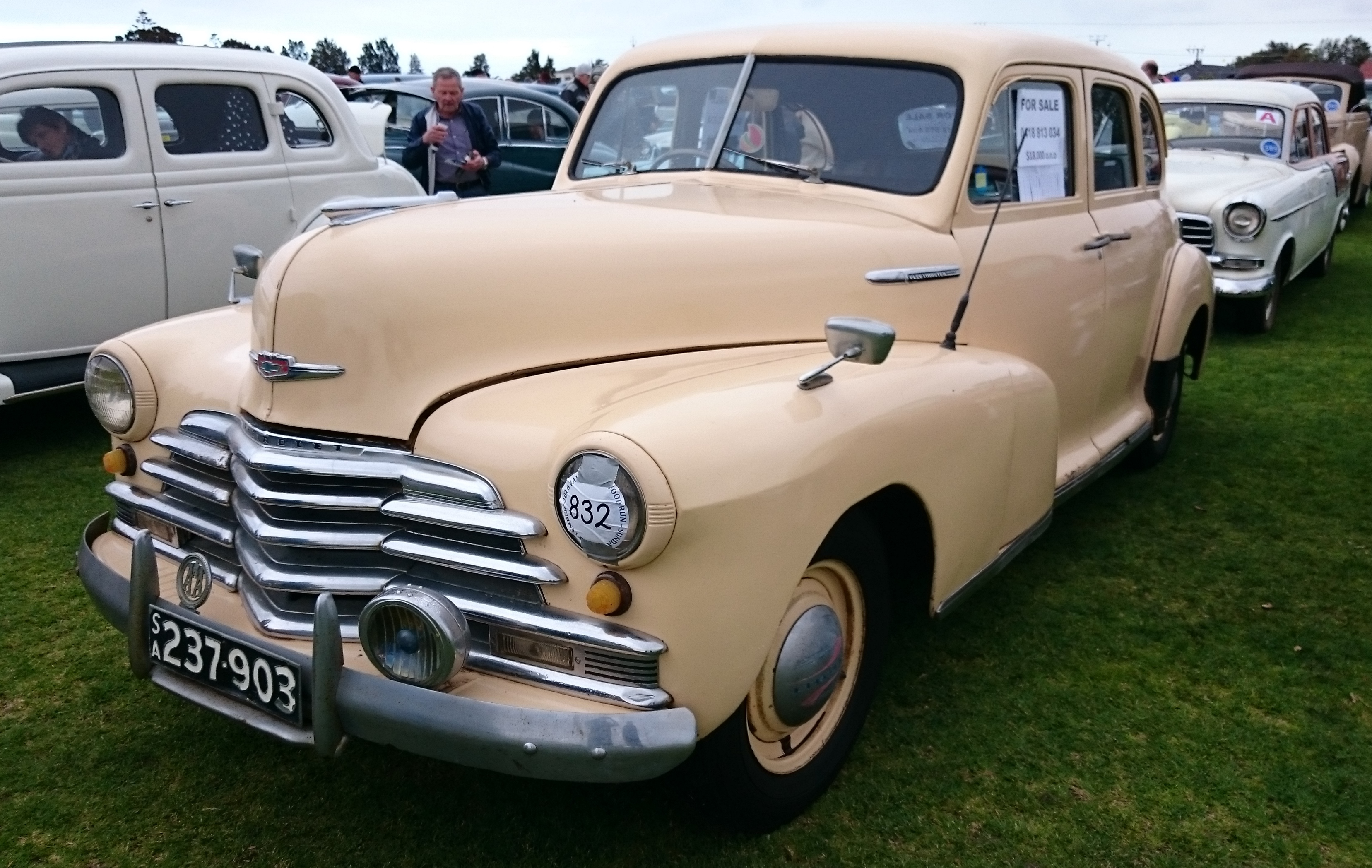 Australian built 1947 Chevrolet Fleetmaster. As General Motors-Holden's had carried over the body tooling from its 1942 models, the Australian sedan differed from its US counterpart in having a different body with rear-hinged back doors and a larger trunk.